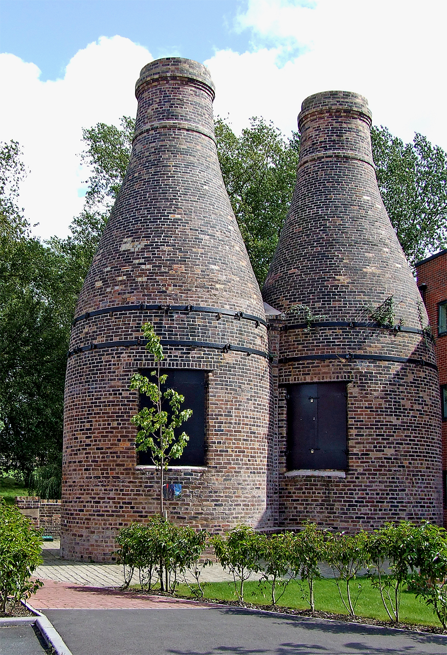 Restored bottle kilns, Stoke-on-Trent A plaque on these recently restored buildings states: Restored by Countryside Properties 2008